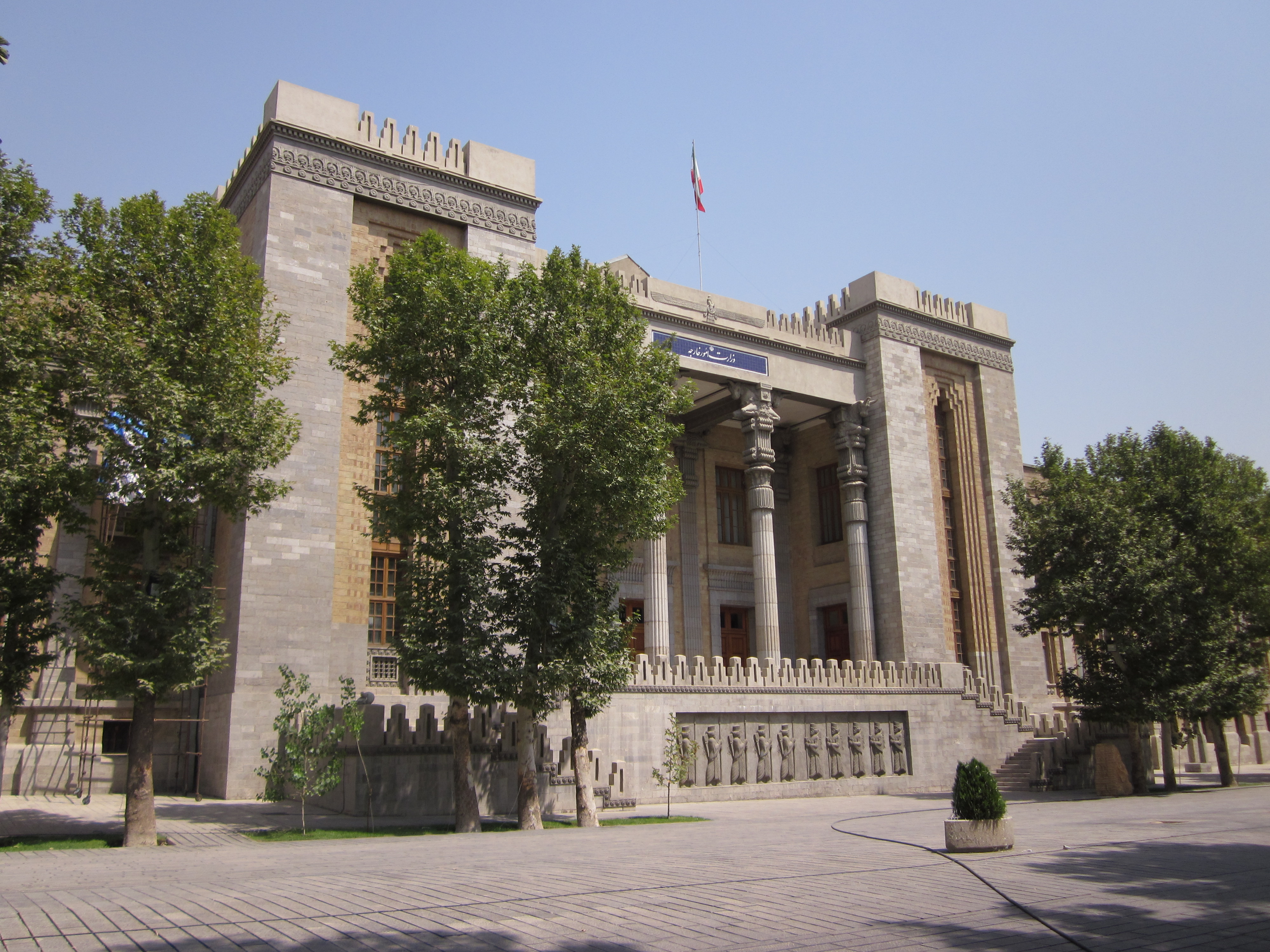 Parade Ground's Complex, Tehran, Iran.